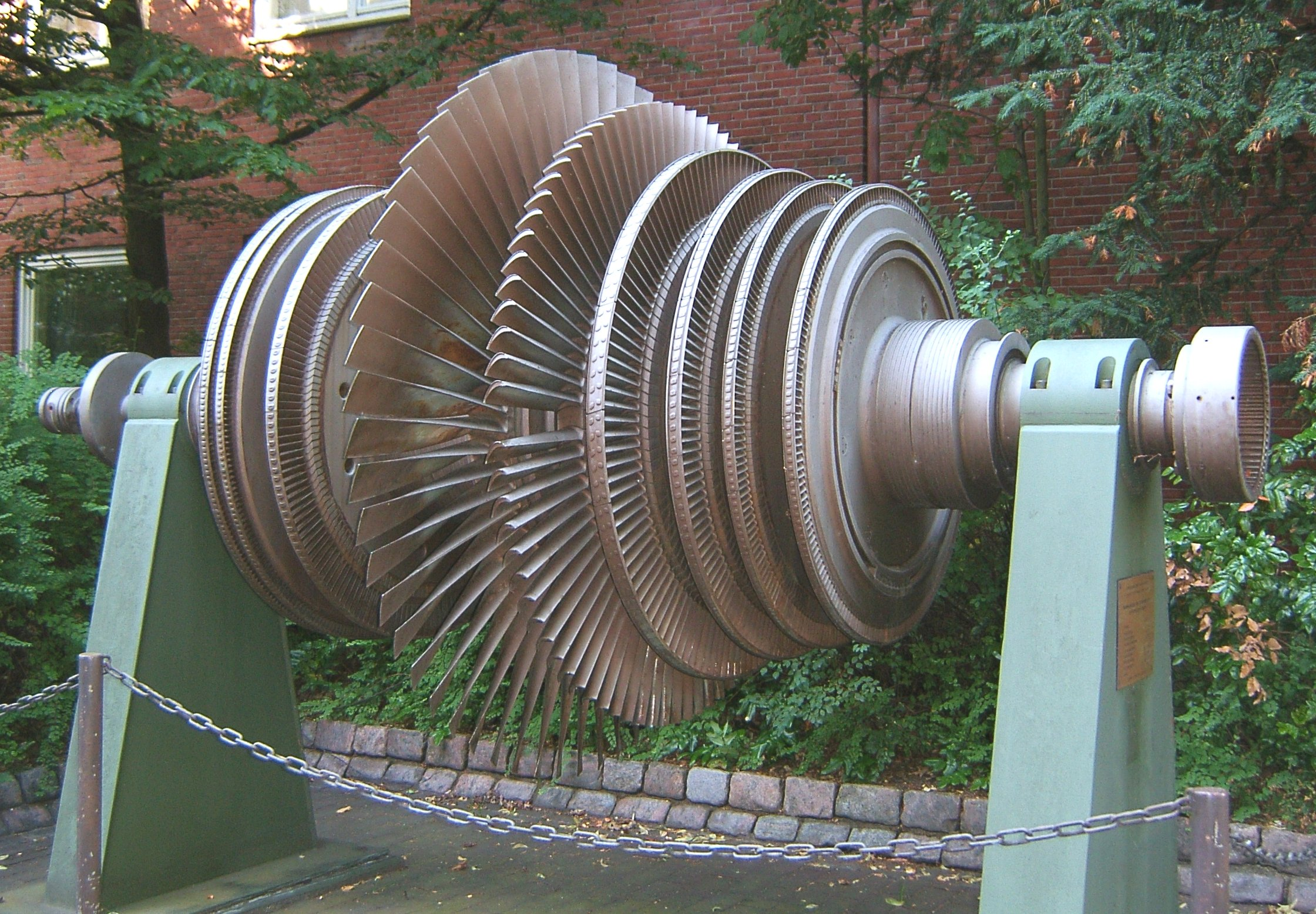 A Steam turbine